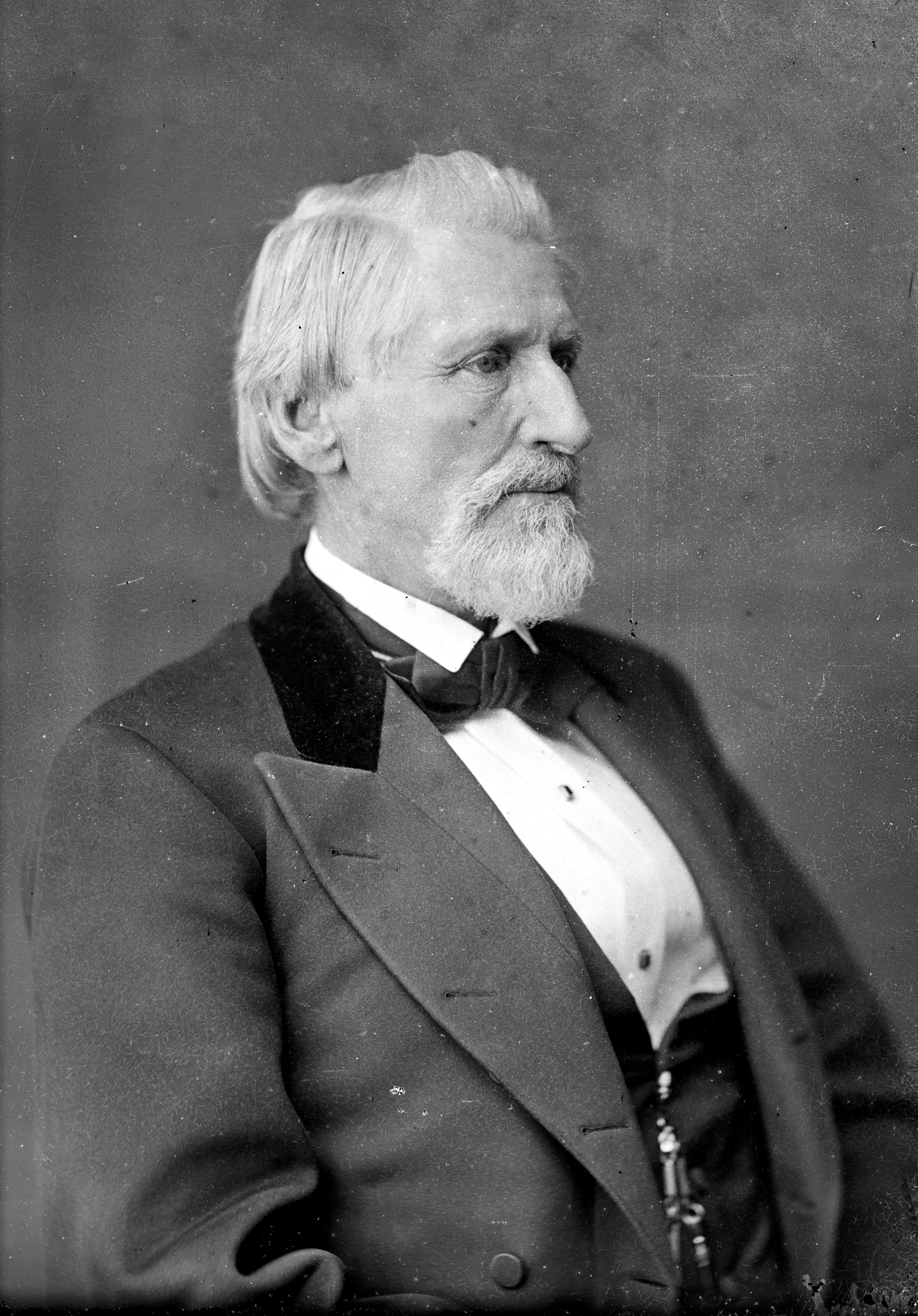 Otho R. Singleton, Politician from Mississippi, Member of United States Congress